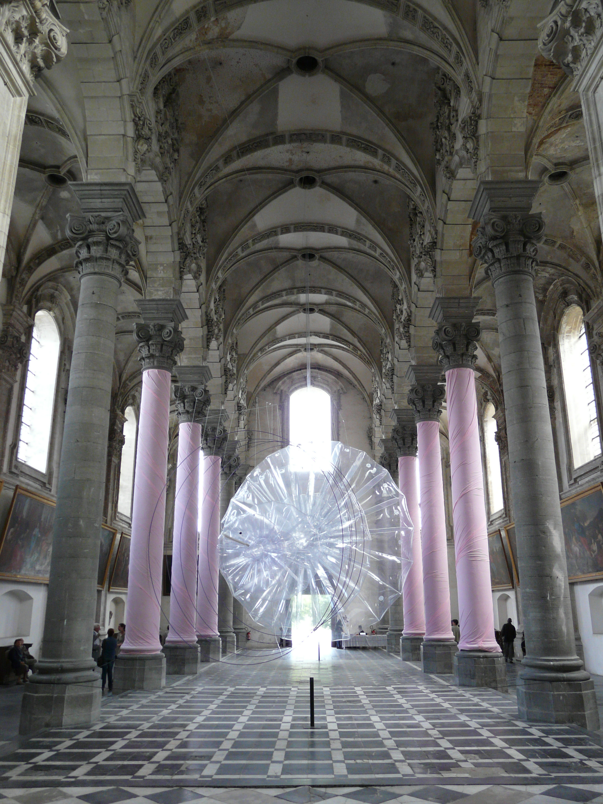 The nave of the Jesuits' chapel (Cambrai) with "Cocoon" by Klaus Pinter